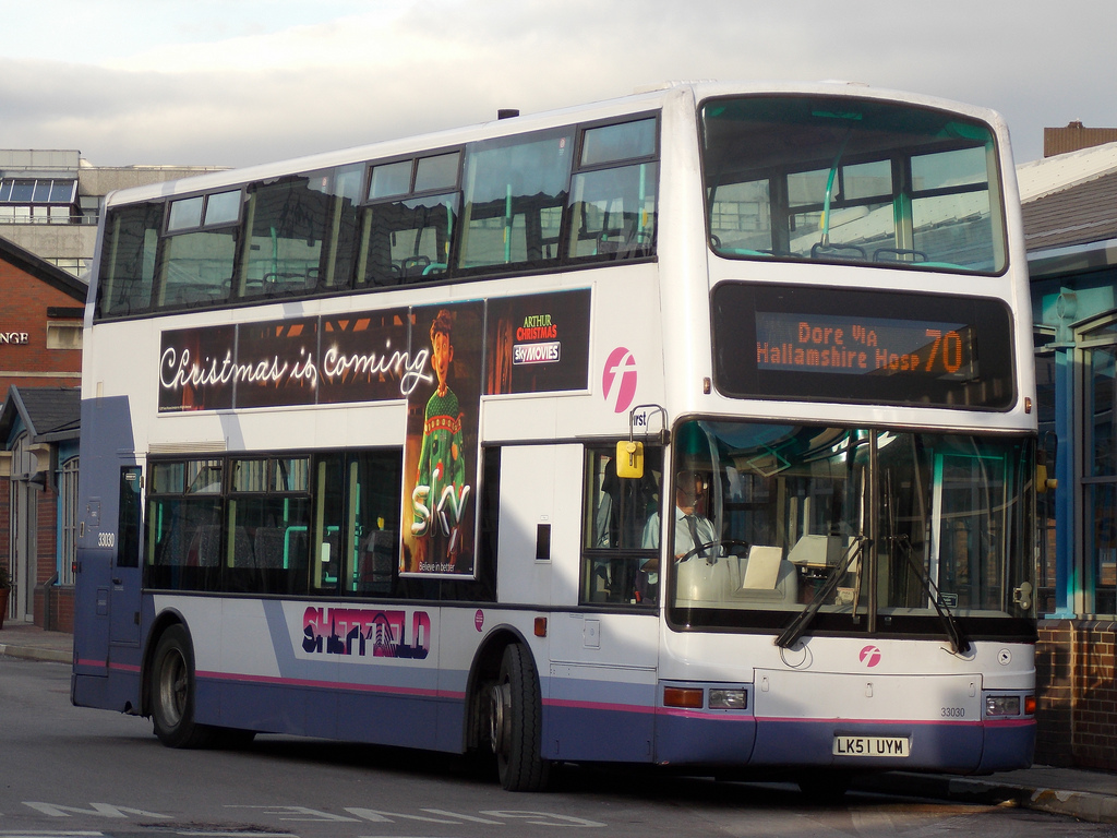 First South Yorkshire bus in new Olympia livery, November 2013.